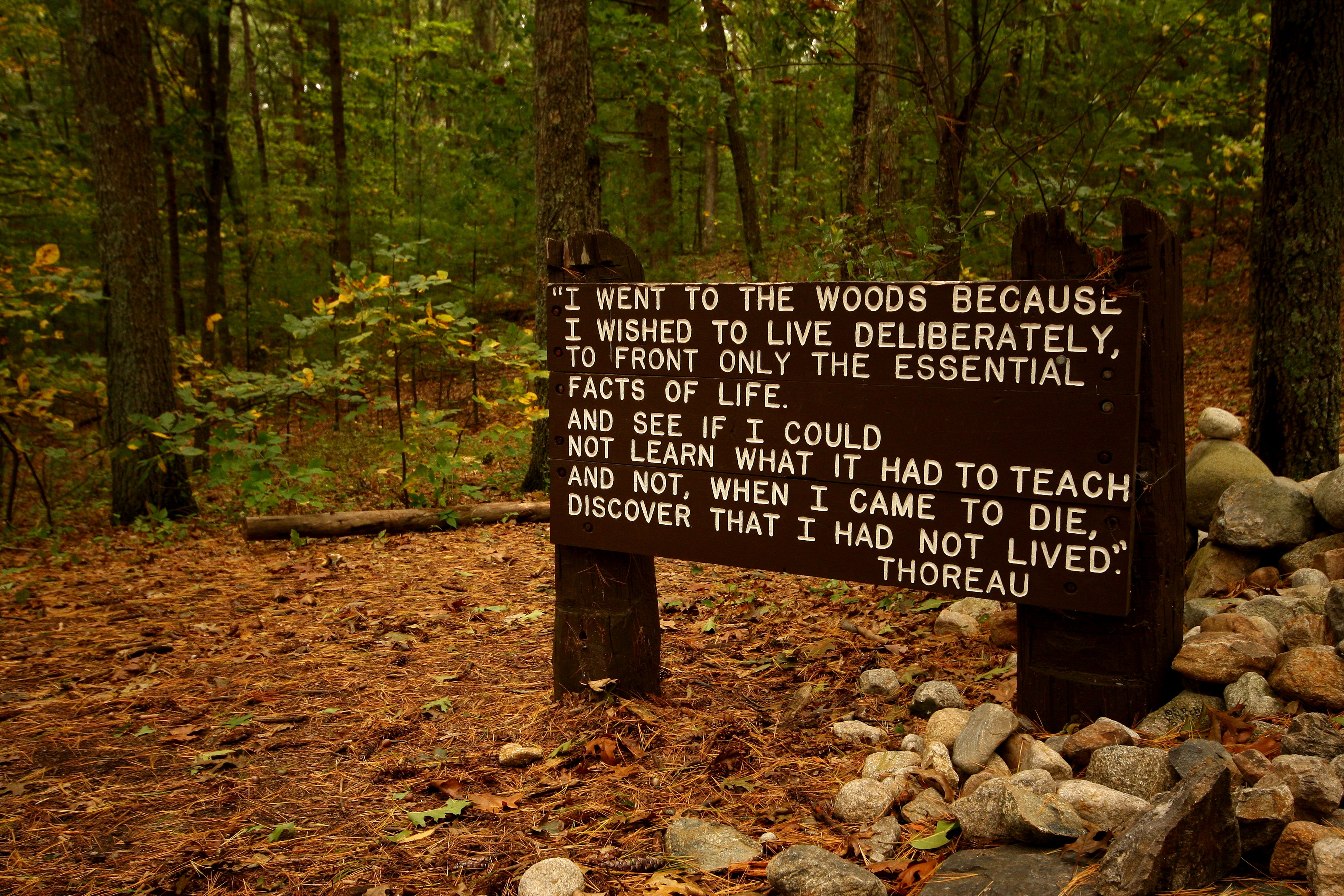 Thoreau's quote near his cabin site, Walden Pond.